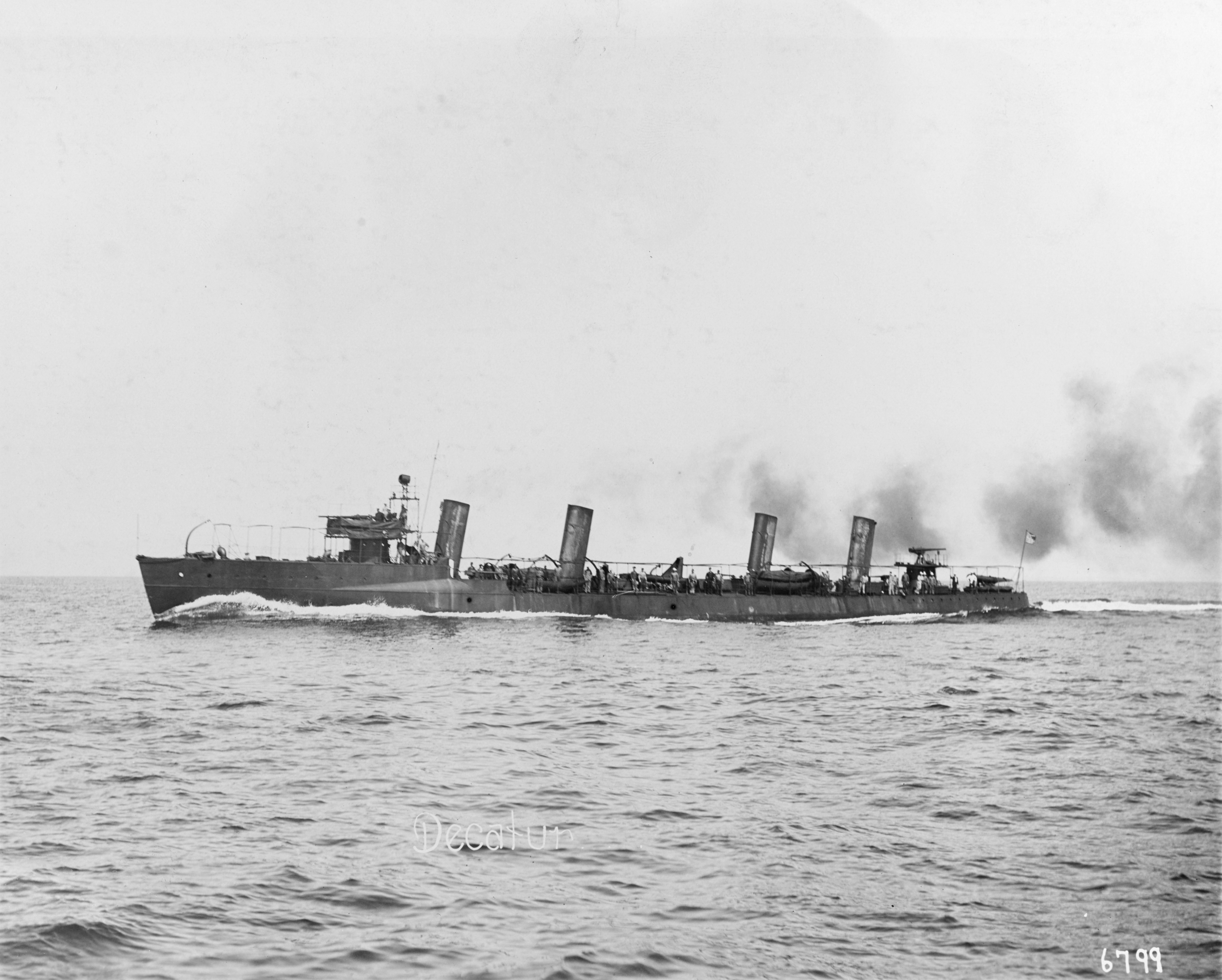 Removed caption read: Photo # NH 54645 USS Decatur running trials, circa 1902